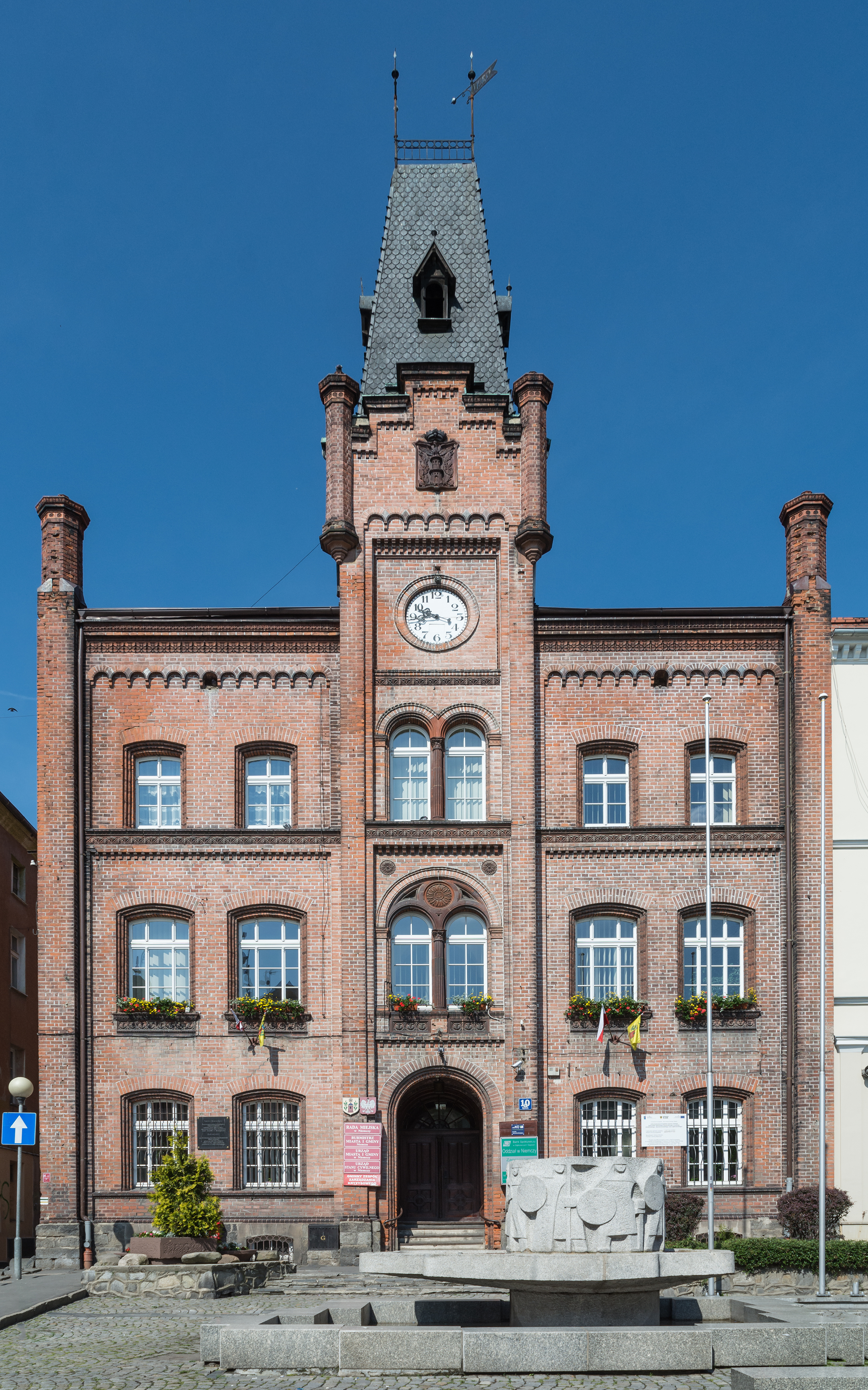 10 Market Square in Niemcza